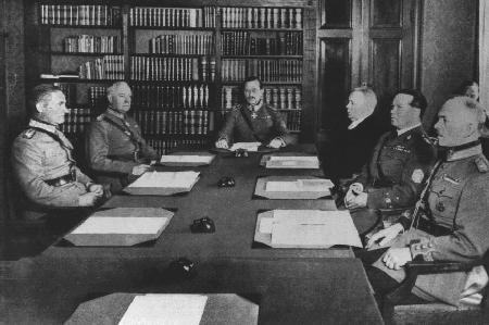 Finnish Defence council during World War II. Mannerheim in the middle, Rudolf Walden on his left, Martin Wetzer furthest to the right.